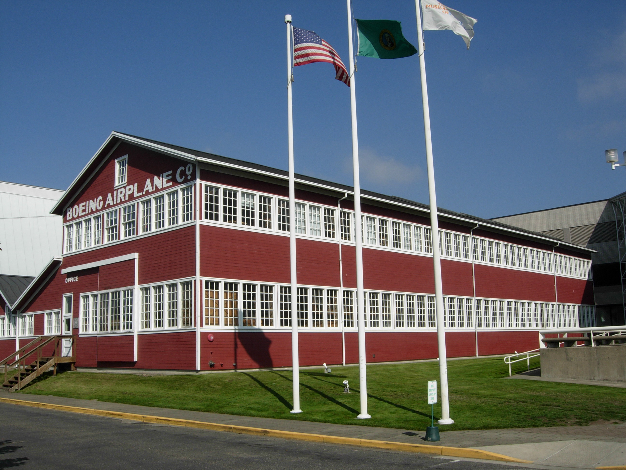 Building No. 105, Boeing Airplane Company, at the Museum of Flight, Tukwila, Washington